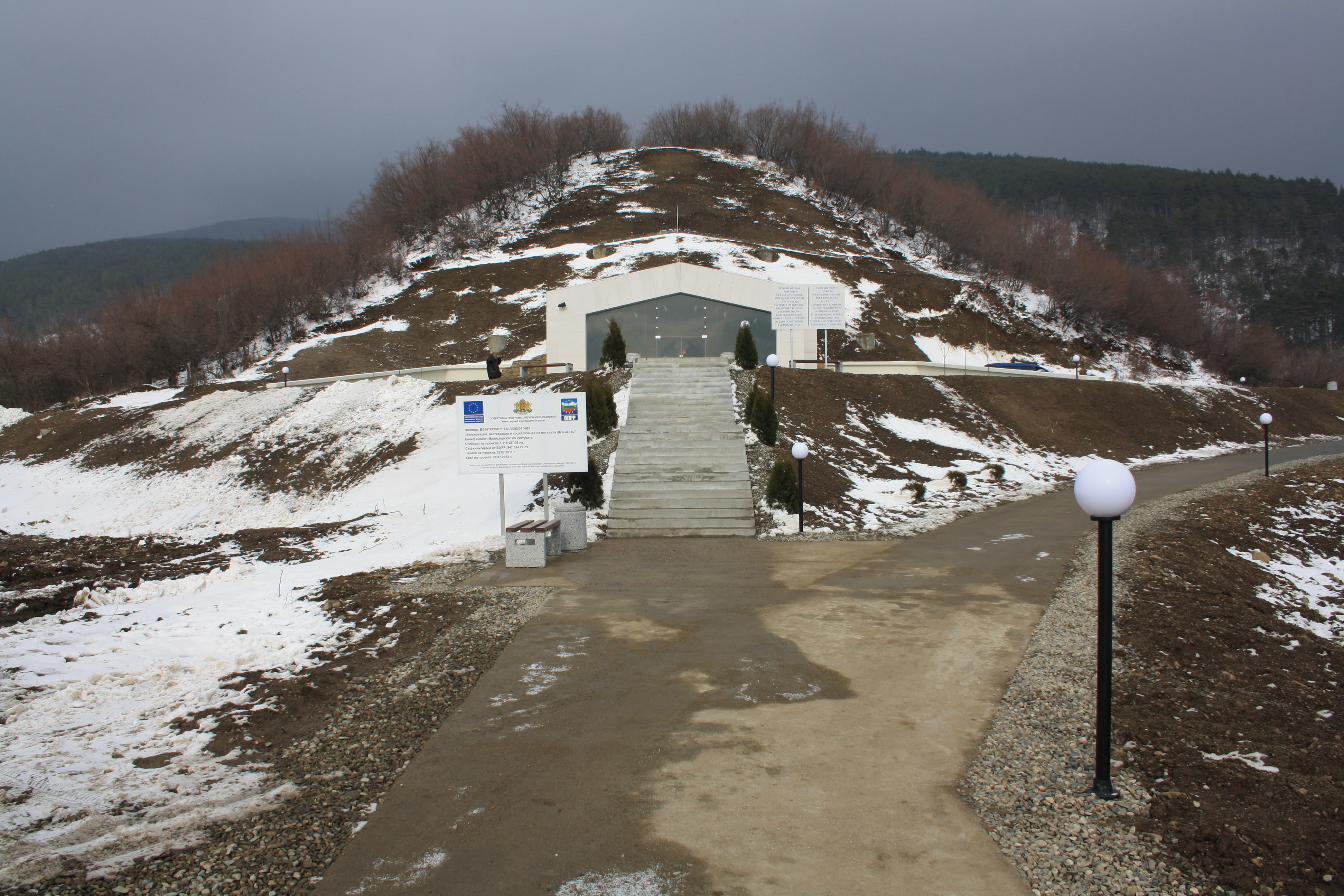 panoram view